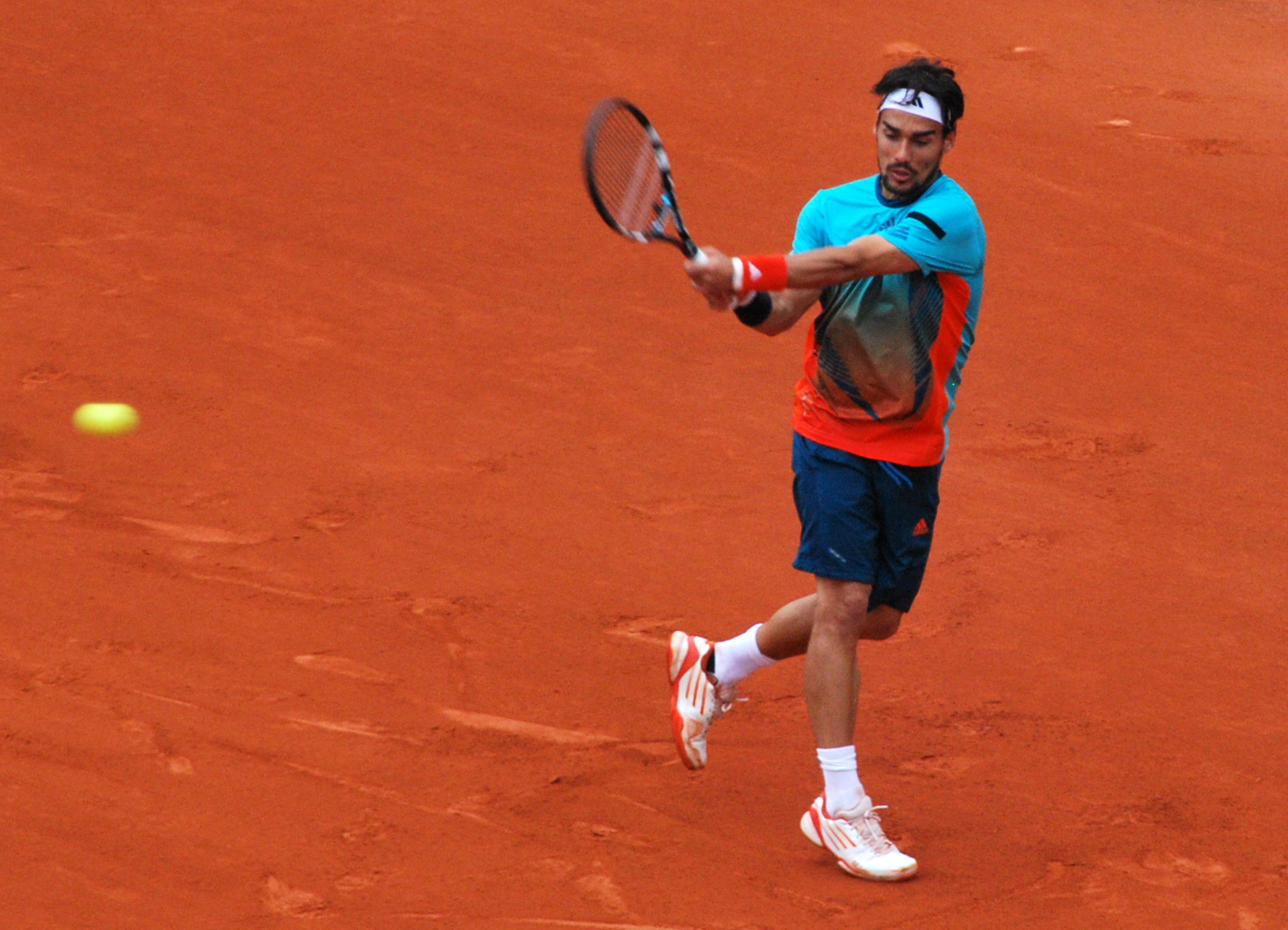 Fabio Fognini during his 3rd round match with Jo-Wilfried Tsonga. Tsonga won 7-5, 6-4, 6-4. Day 6 of Roland Garros 2012.